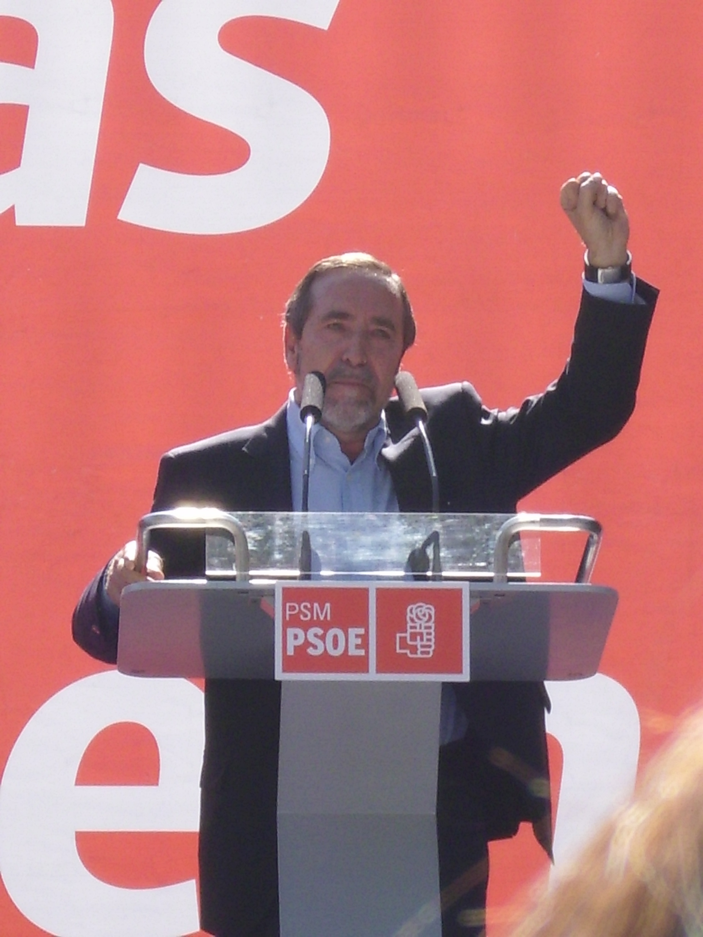 Spanish politician Juan Barranco Gallardo. Photo taken at a socialist meeting in San Blas (Madrid)